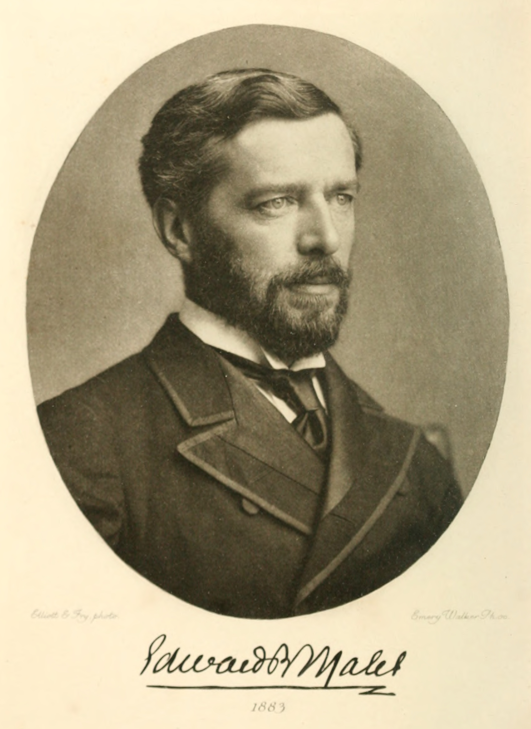 Edward Malet (1883)